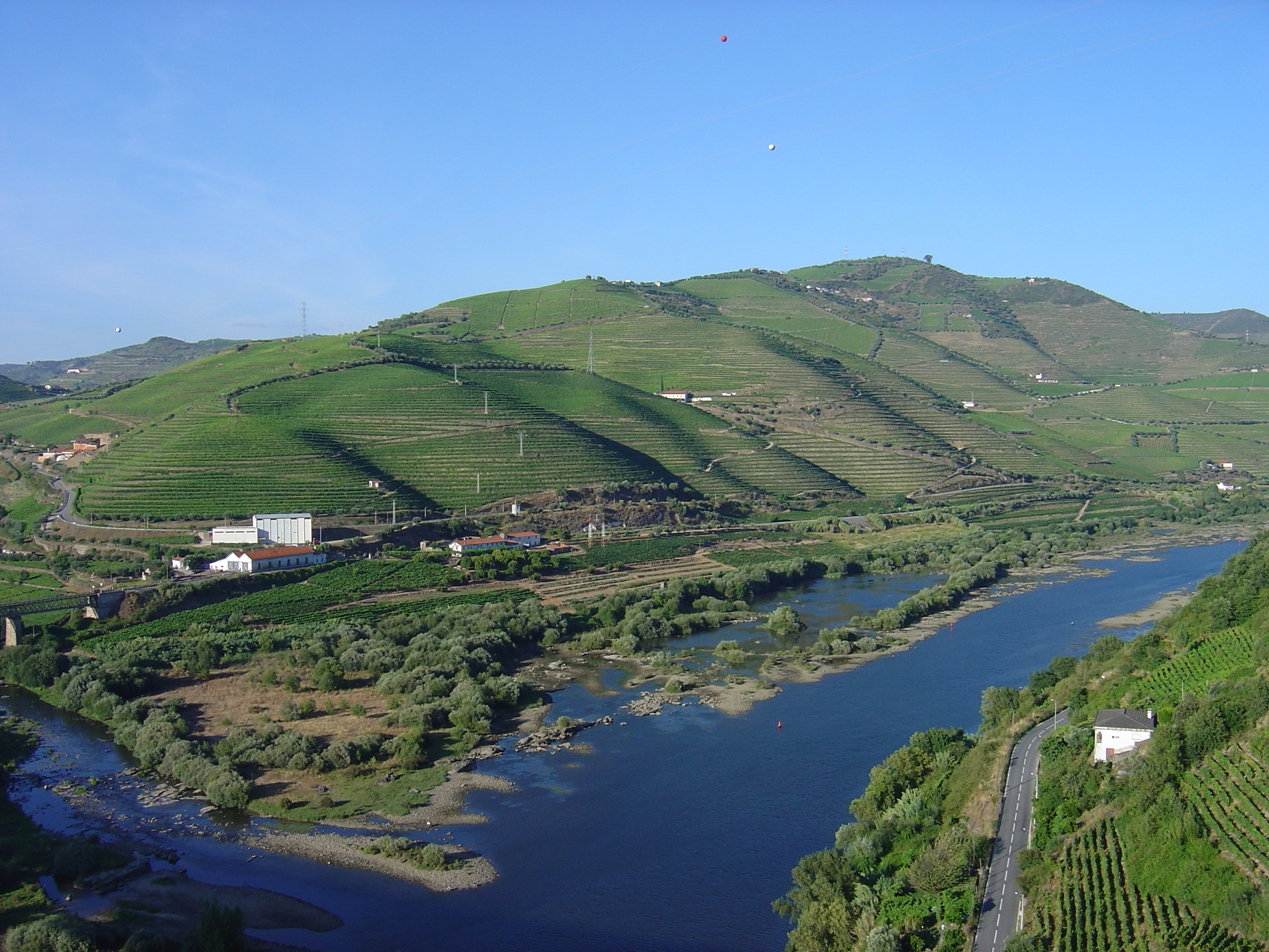 Peso da Régua, Portugal